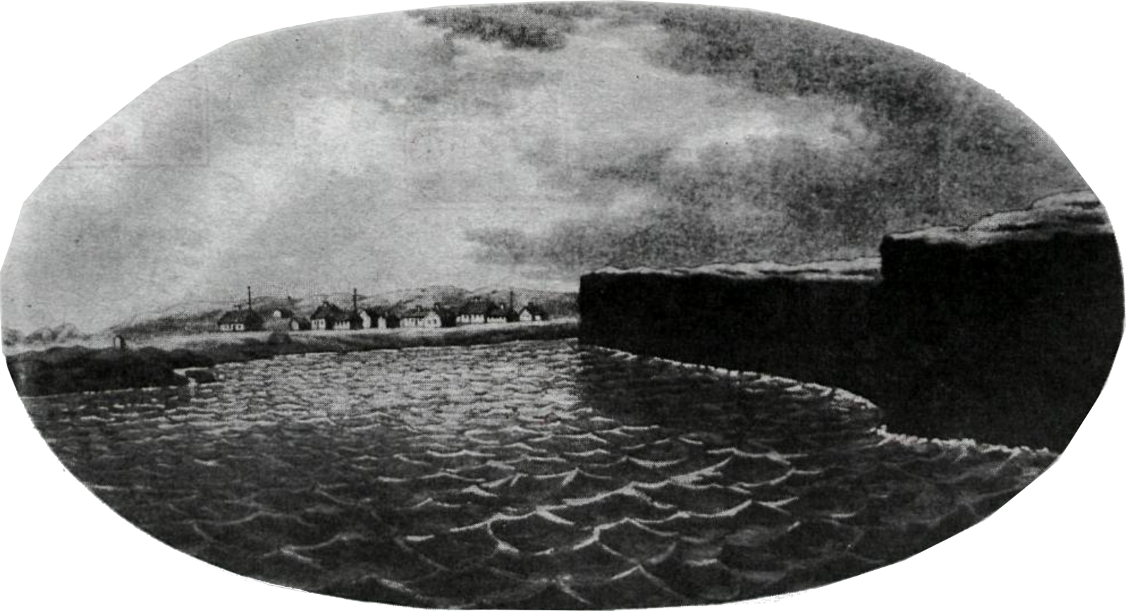 A drawing of the coastal town of Keflavík, Iceland, made around 1804 by Danish naval cartographer Poul de Løvenørn (1751-1826).